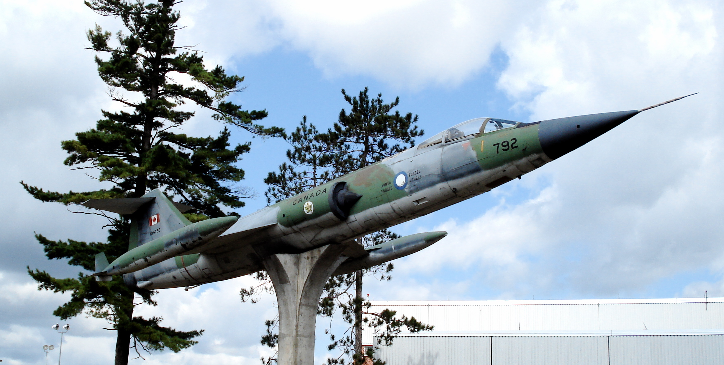 CF-104 Starfighter (Canadian version of US F-104). This example is displayed on the grounds of CFB Borden (Base Borden Military Museum). Photo taken on August 18, 2006. Source: Photo by me, User:Balcer.